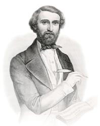 Verdi 1842-L.De Vigni-Lithograph design by G. Turchi